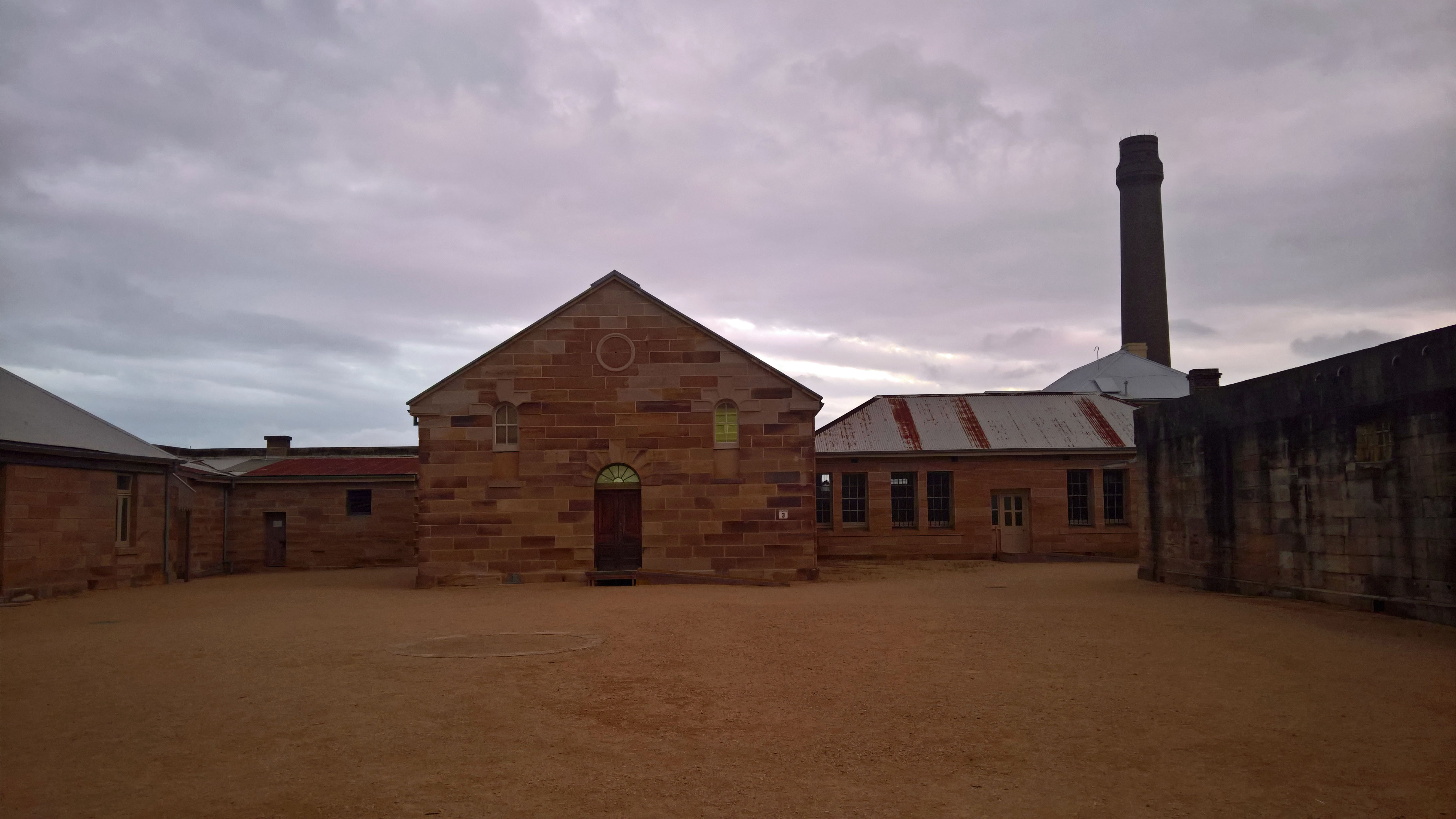 The building is in an area of Cockatoo Island which was used to house convicts in the 19th century.